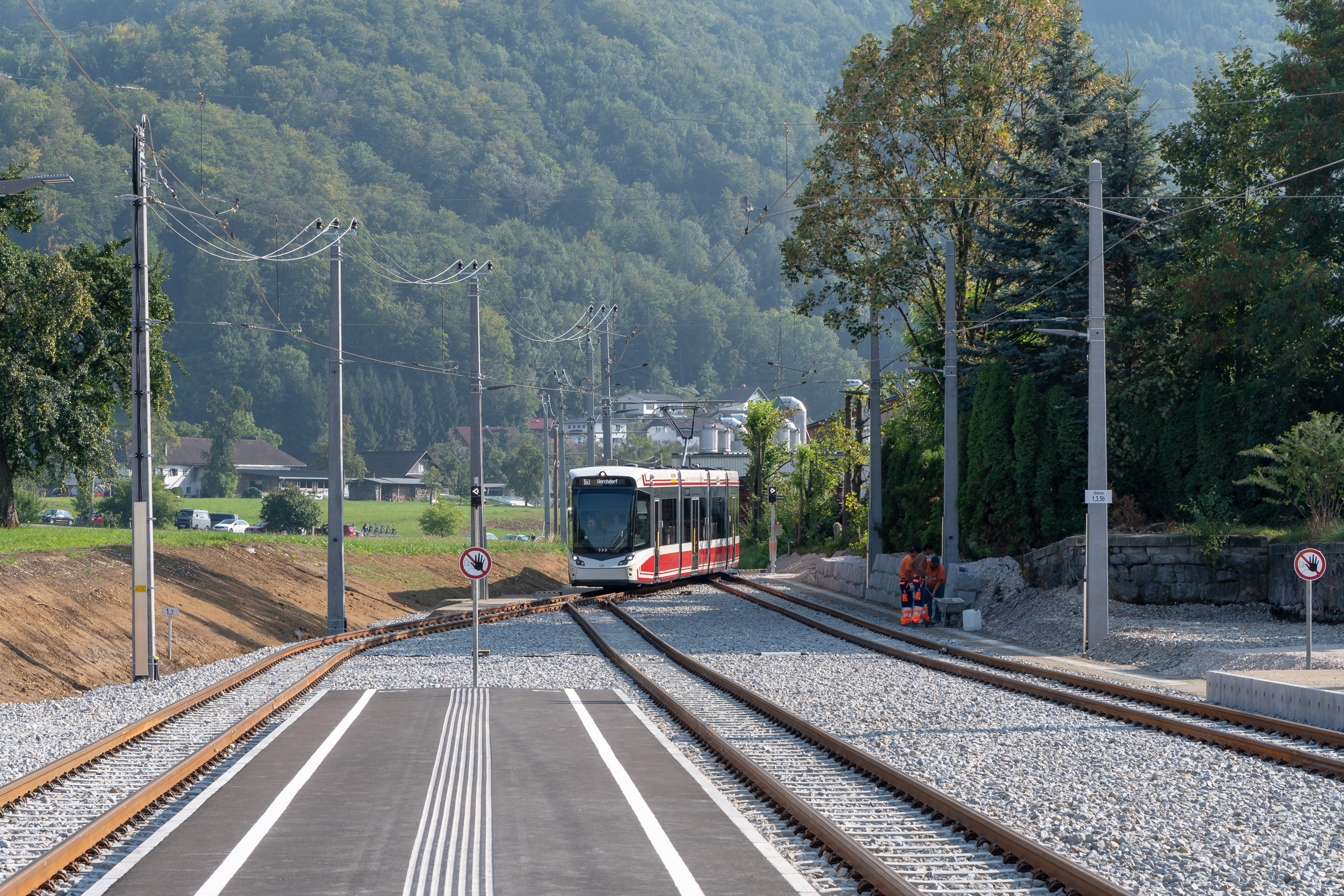 Arrival of Vossloh Tramlink 130 at tram stop Gmunden Engelhof